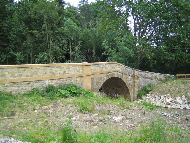 Church Bridge at Hawnby after the rebuild